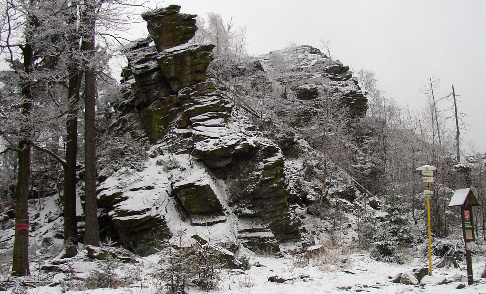 Rocks of Malinská skála (811 m a. s. l.) in Žďárské vrchy Mts., Czech Republic.